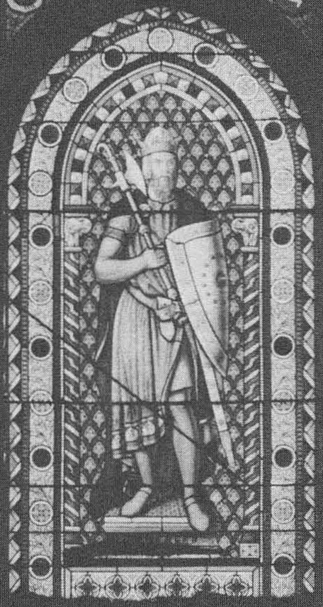 Cropped photo of a stained glass window in the entrance hall of Armadale Castle. The figure represents Somerled MacGilleBride (d. 1164). A portion of the window, which does not appear in this cropped image, reads "SOMERLED REX INSULARUM".